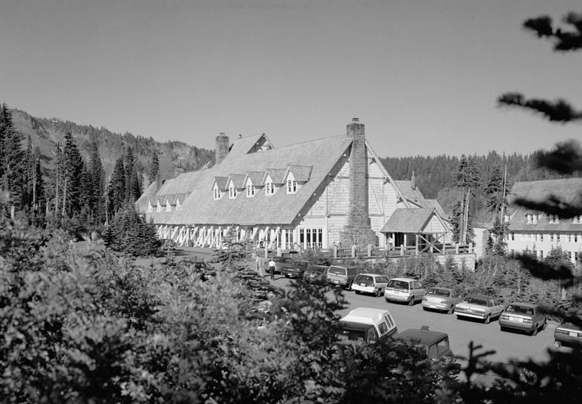 Paradise Inn at Mount Rainier National Park